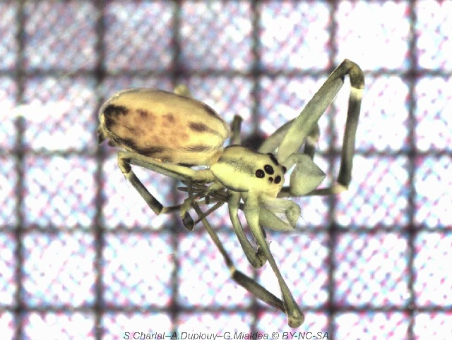 Tangaroa tahitiensis from French Polynesia